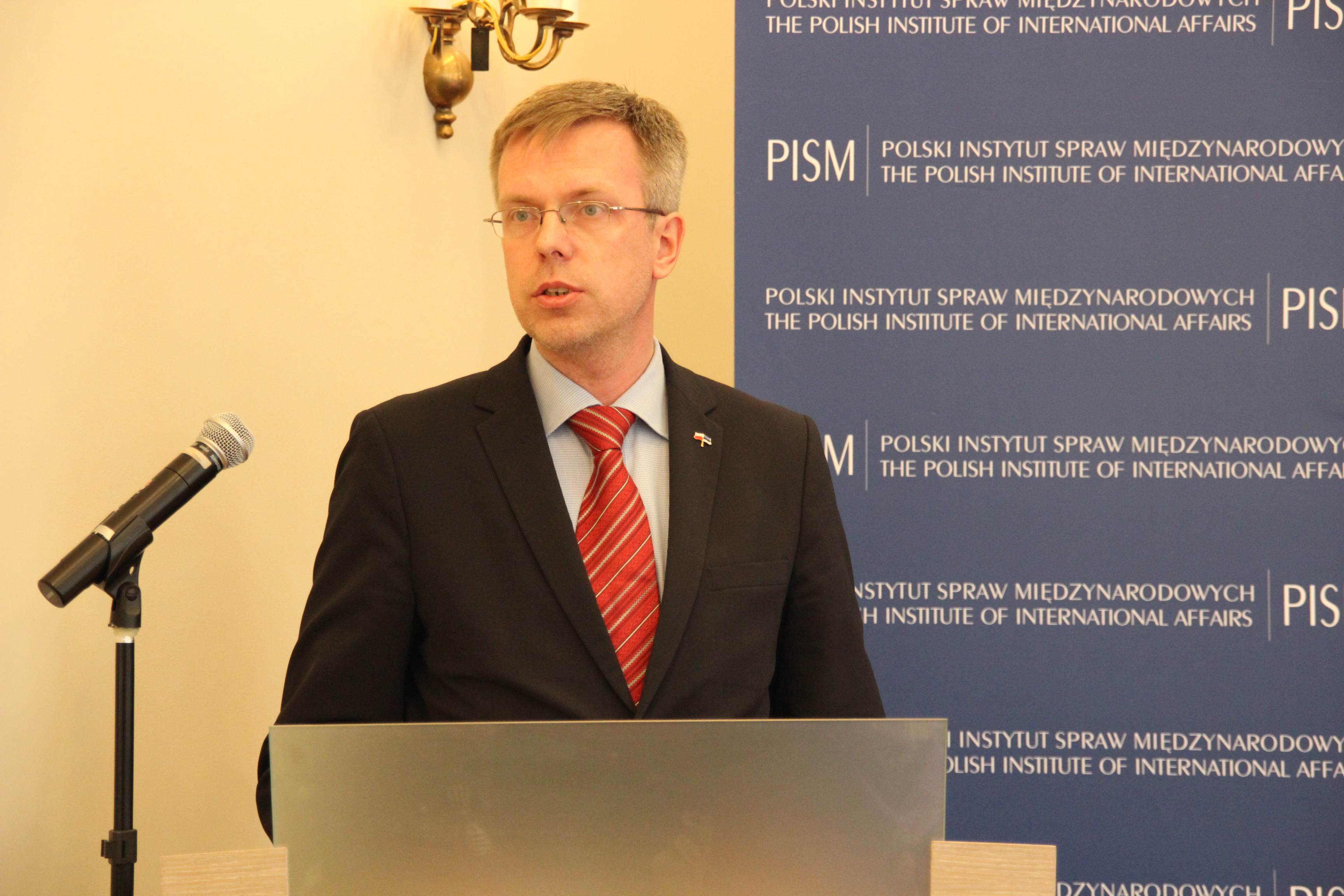 Estonian Ambassador to Poland Taavi Toom at the unveiling of the Polish-language translation of the book “A History of the Baltic States” by Andres Kasekamp at the Polish Institute of International Affairs